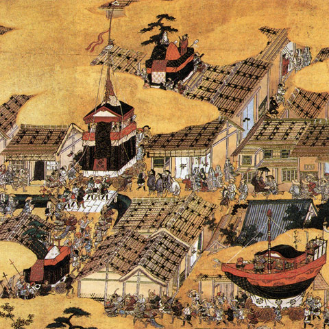 The Gion Festival in Kyoto , detailed views inside and outside of the capital of kanō eitoku v. 1561-1562 ("Uesugi screens"). Yonezawa City Uesugi Museum.